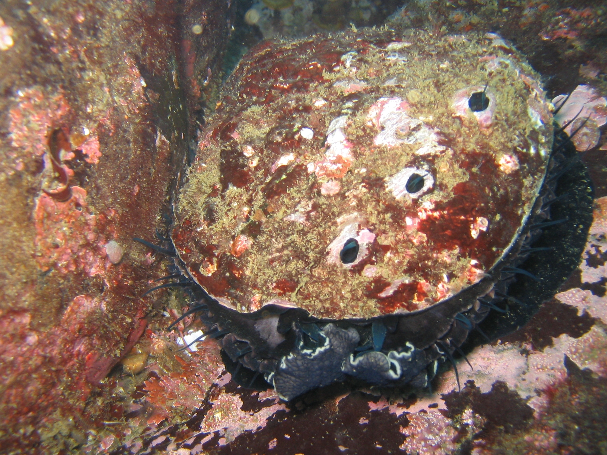 Abalone in the kelp forest. California, Mendocino. Dark red algae: Hildenbrandia, pink crustal algae Lithophyllum?